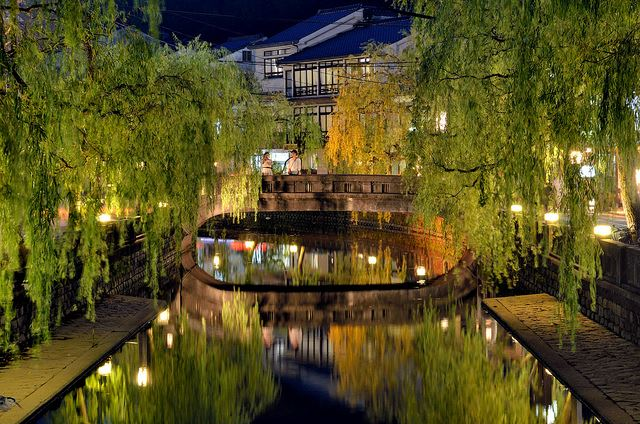 Kinosaki Onsen at night. Taken by Shogo Nishiyama.